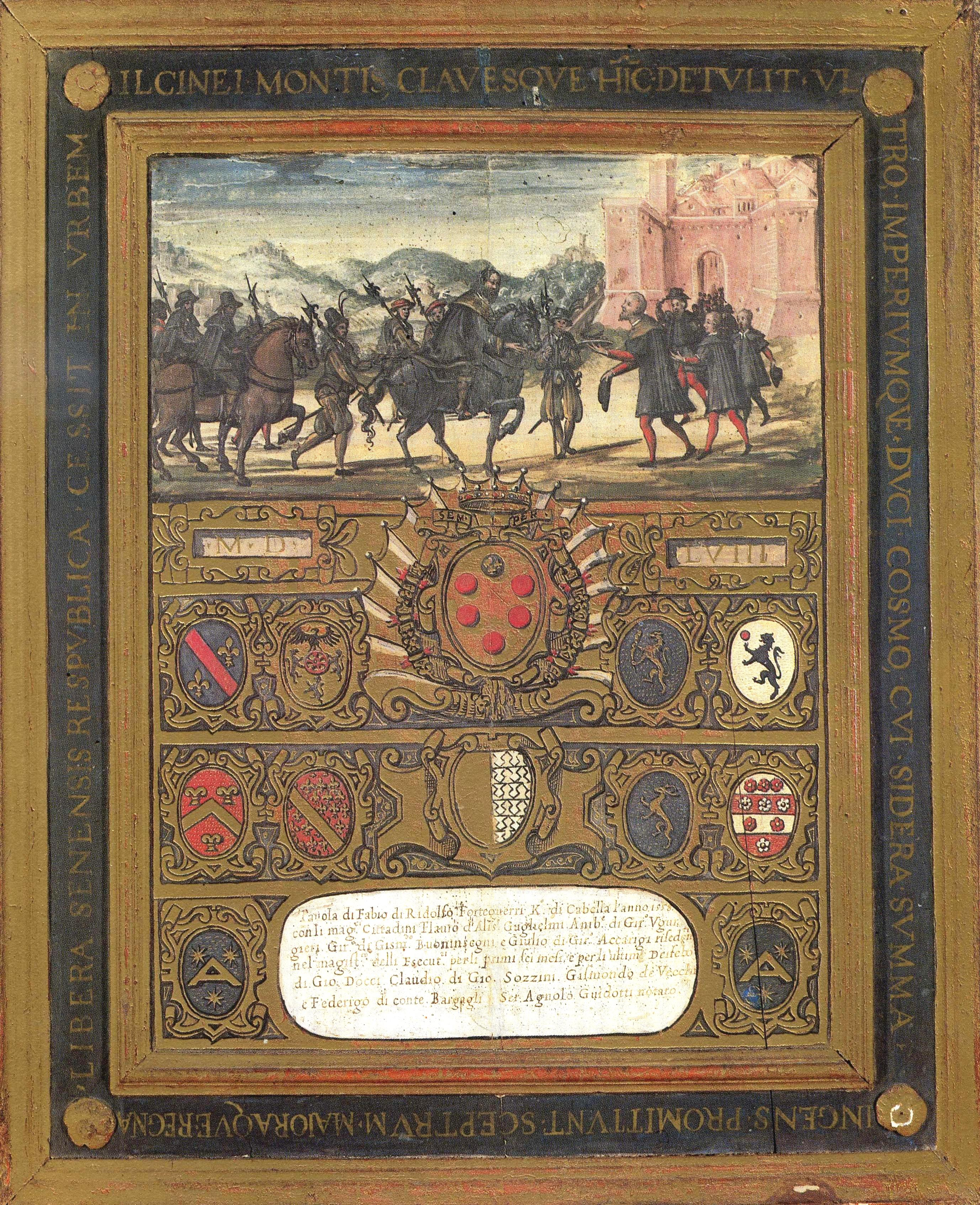 The yield of the Republic of Siena in Montalcino